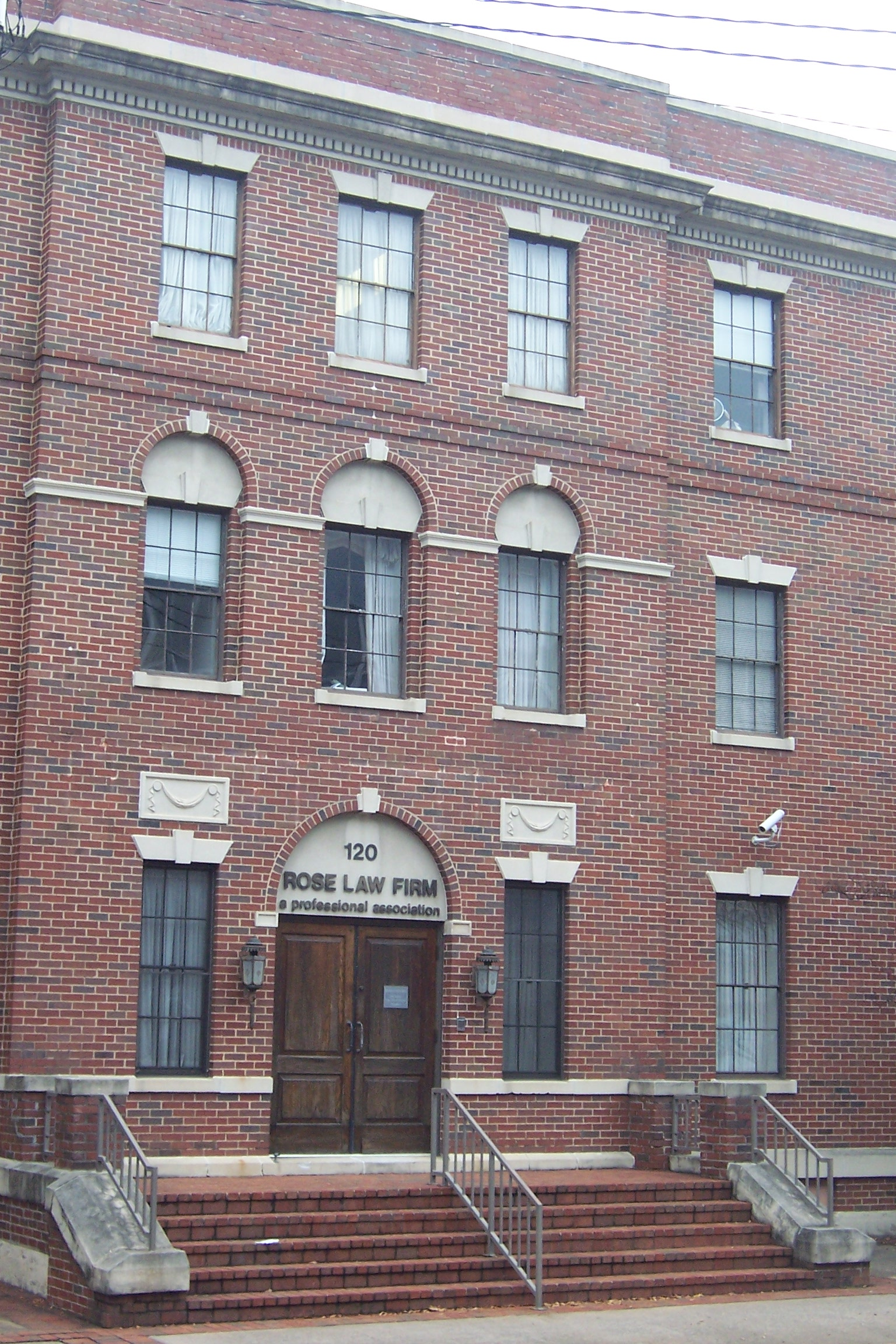 Rose Law Firm, close-up of rear (old) entrance